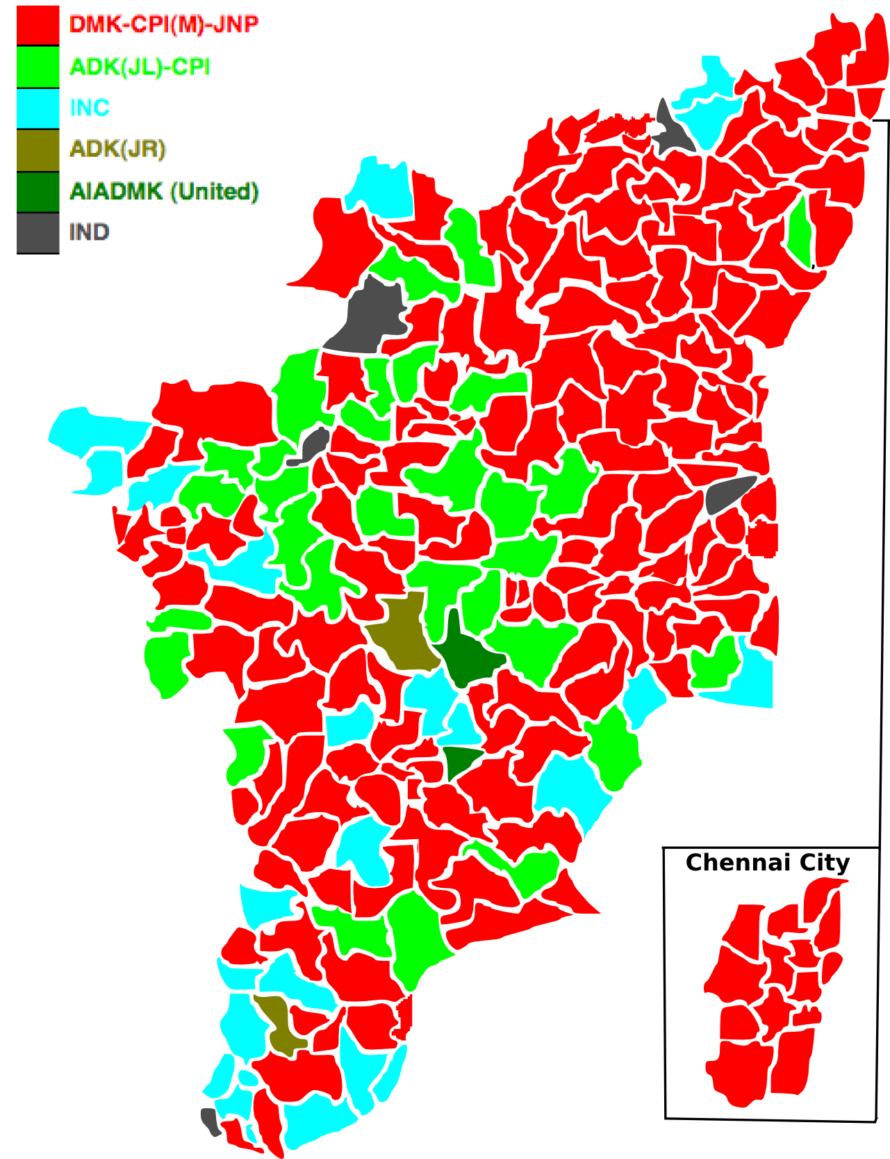 made election map using borders from ECI website using Inkscape.